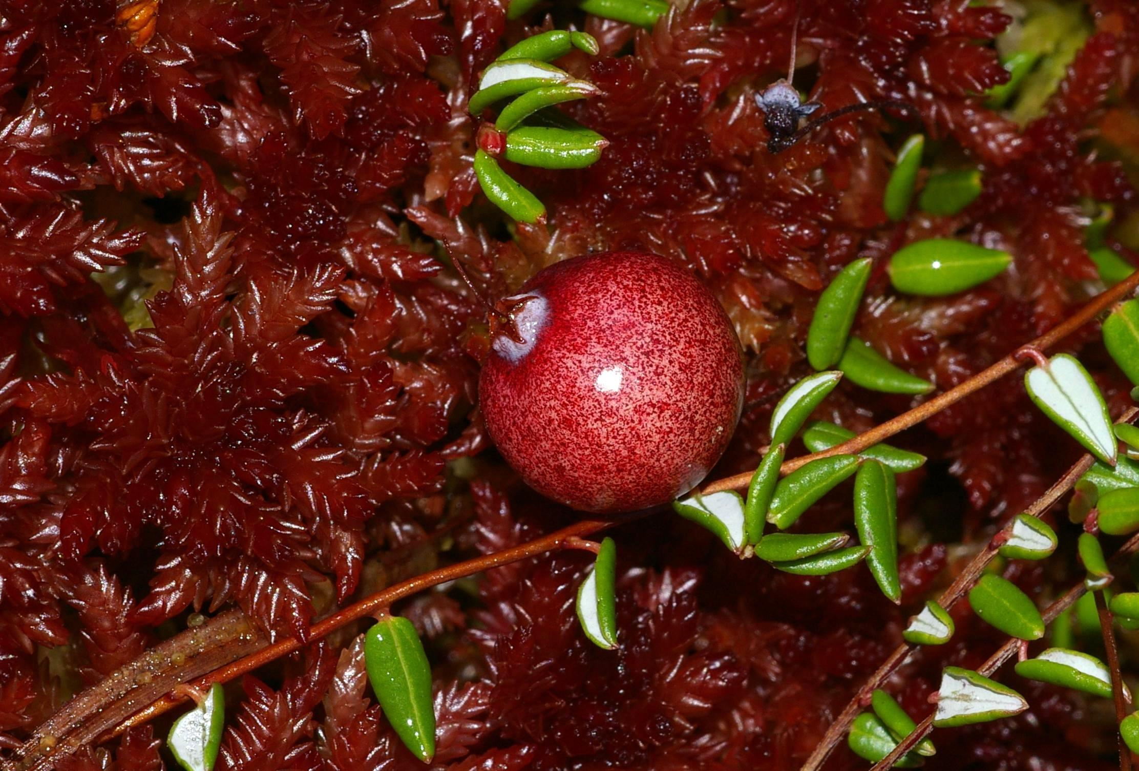 Close-up of a fruit of Vaccinium oxycoccos in a bog. Moreover the moss Sphagnum rubellum.